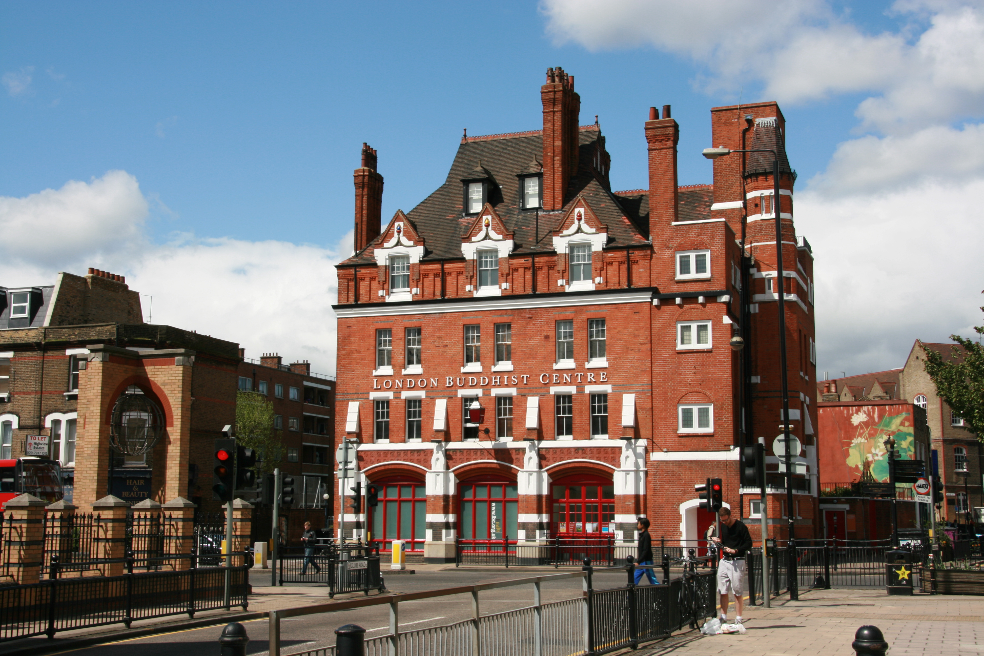 The London Buddhist Centre, 51 Roman Road, Globe Town, London